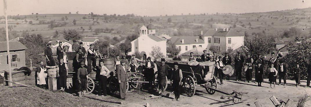 Fest on the occasion of the grape gathering, Petrevene, 1940-s